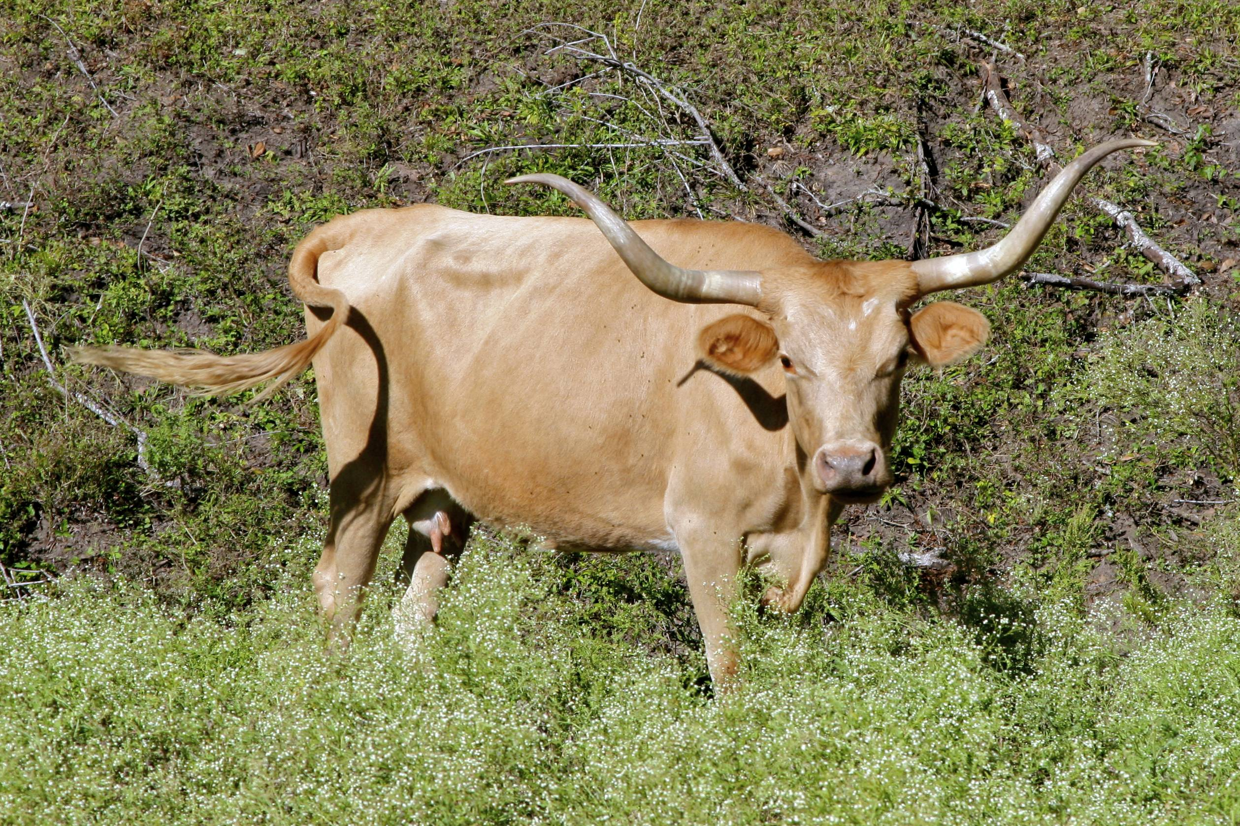 A Texas Longhorn cow. (between Bryan and Houston Texas)